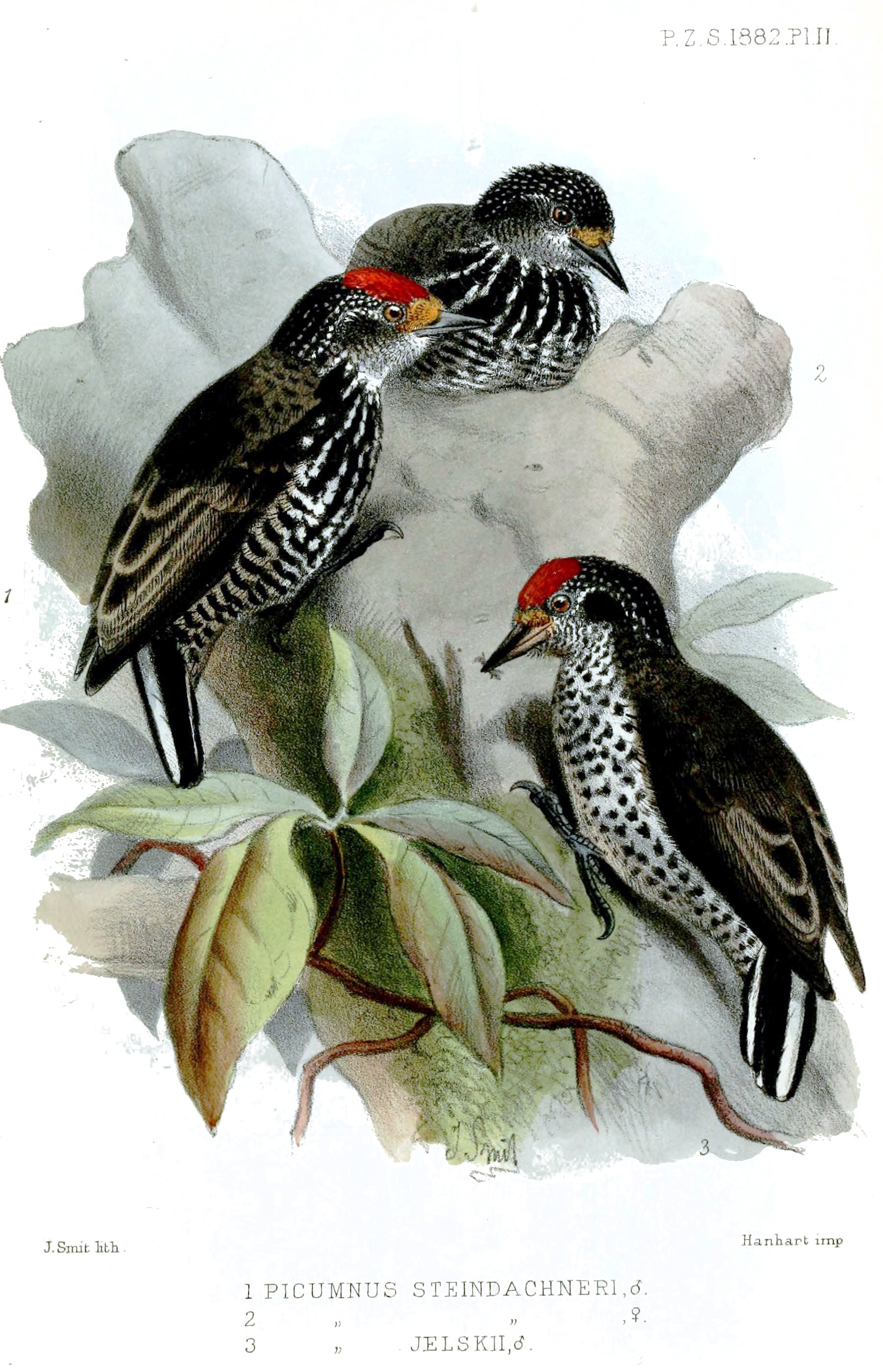 Speckle-chested Piculet, female (top); Speckle-chested Piculet, male (center); Ocellated Piculet, male (bottom)